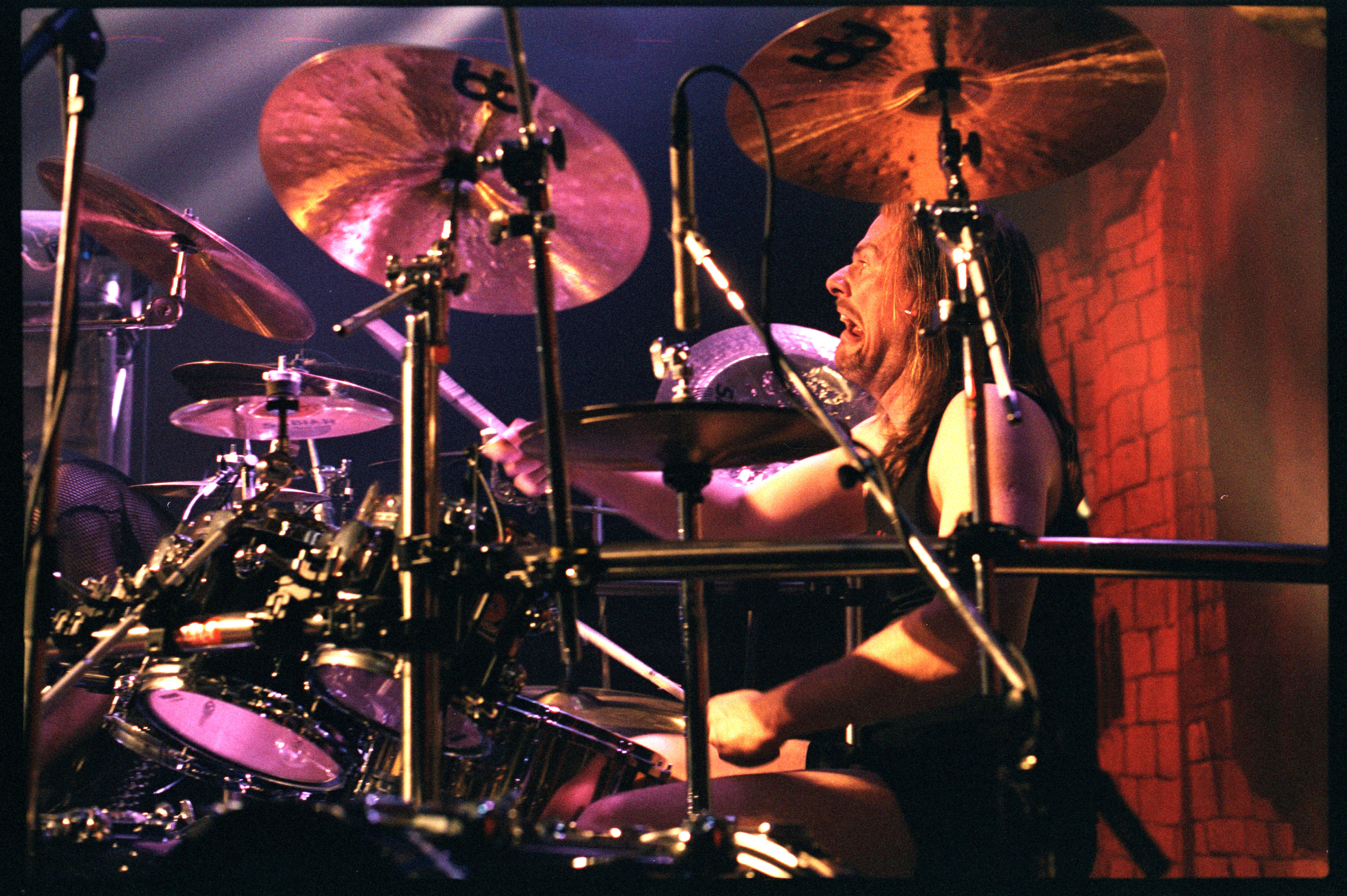 Anders Johansson, drums.